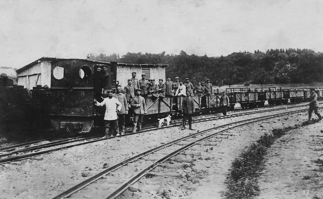 Argonnenbahn, narrow gauge (600mm) battle field railway